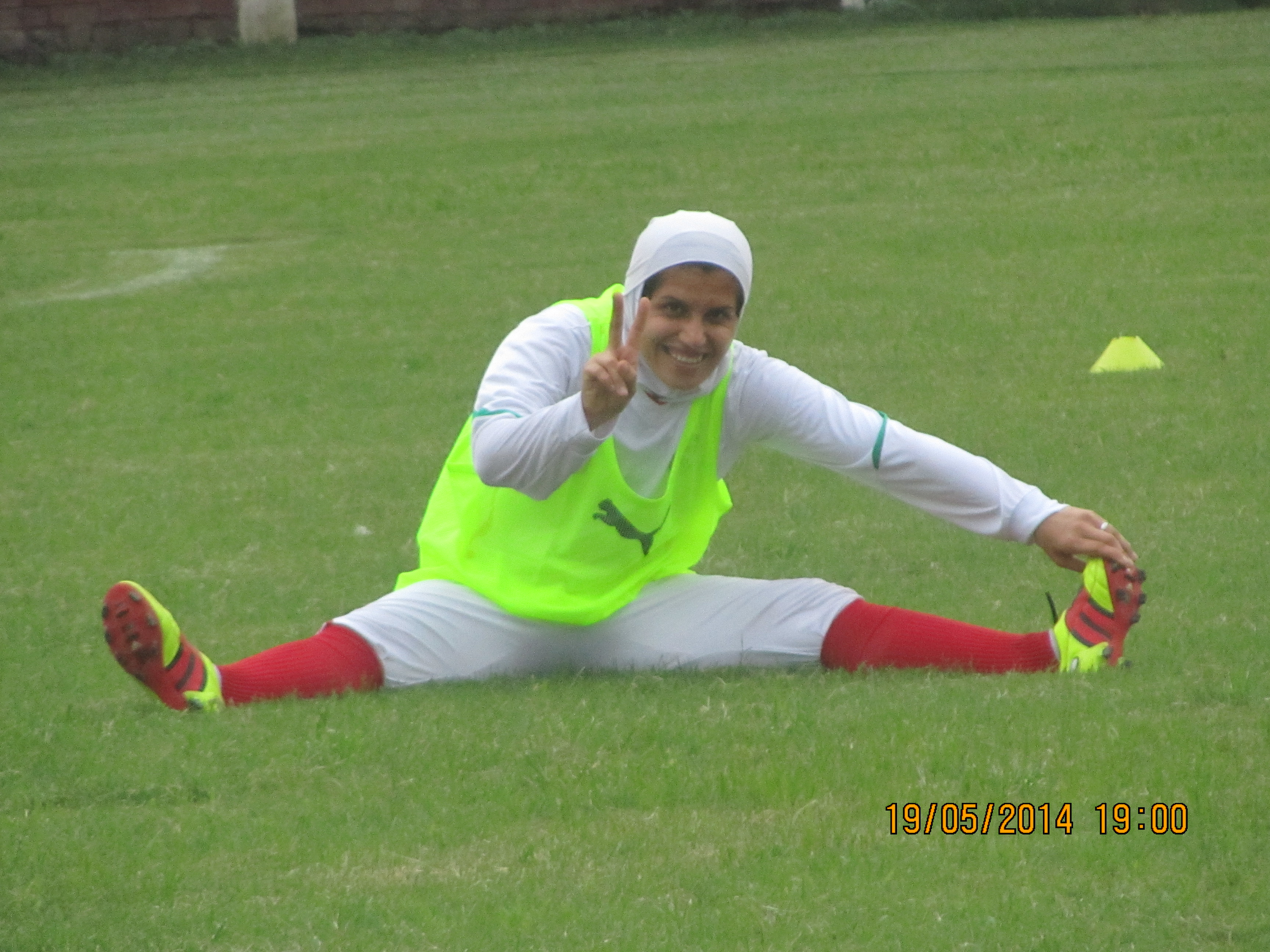 vahide isari